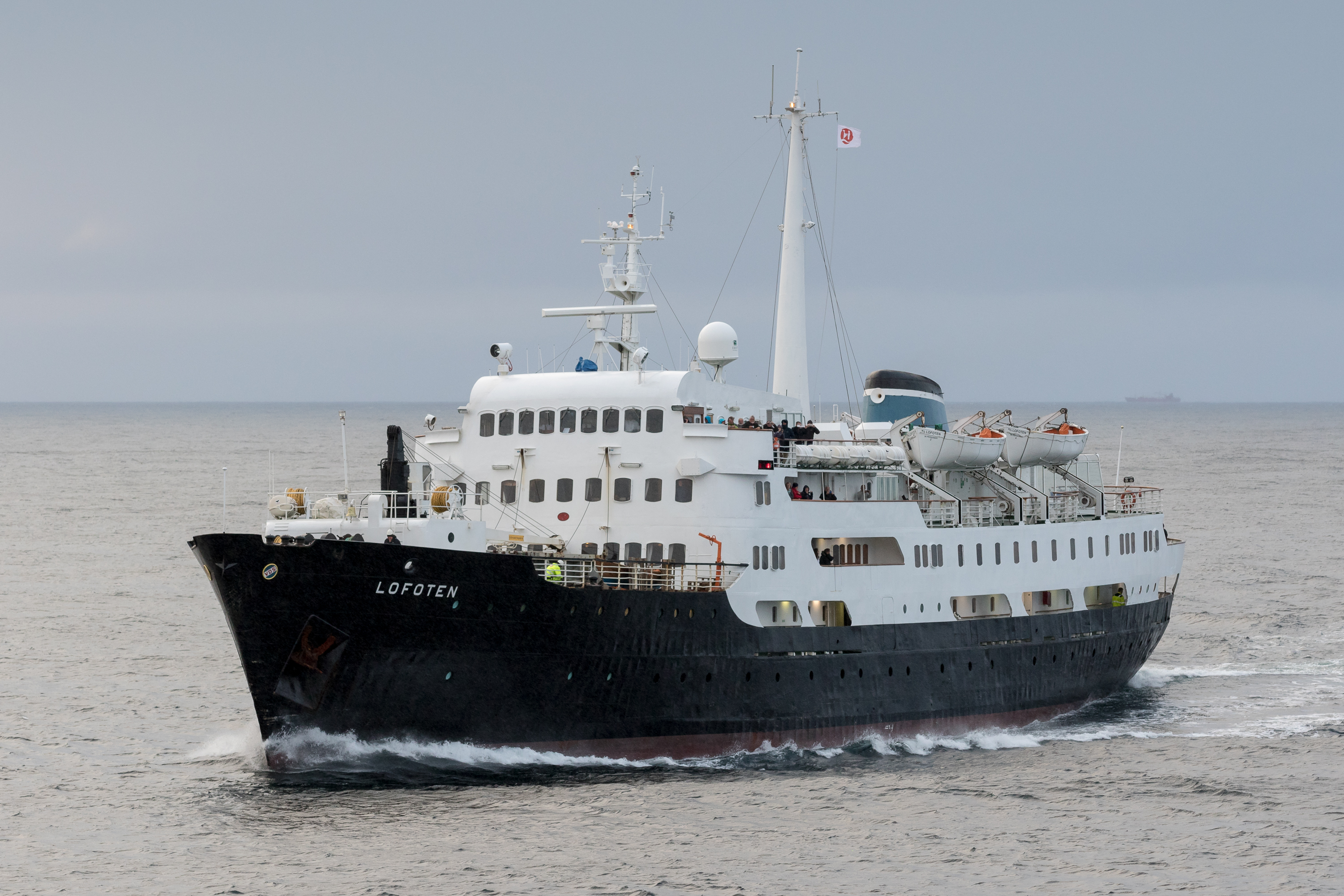 MS Lofoten at 70°51'50" N 29°7'23" E